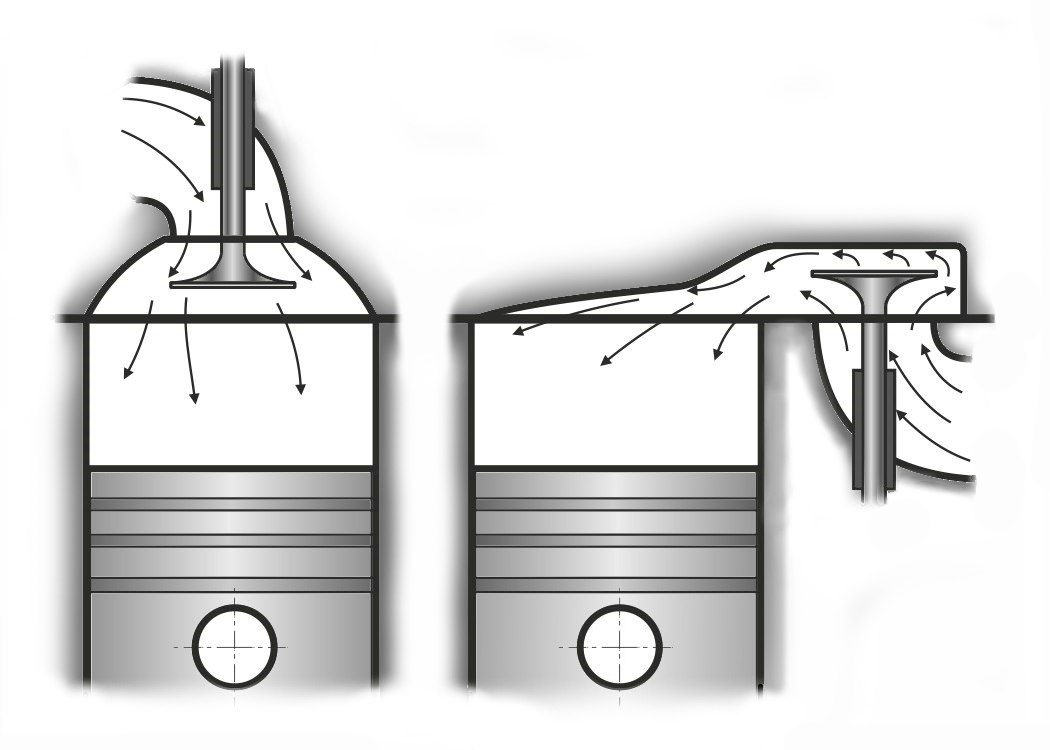 Comparison of gas flow through L-head and OHV intakes.